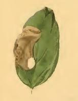 Stainton’s Natural History of the Tineina (1855–1873): Antispila metallella a mined dogwood leaf